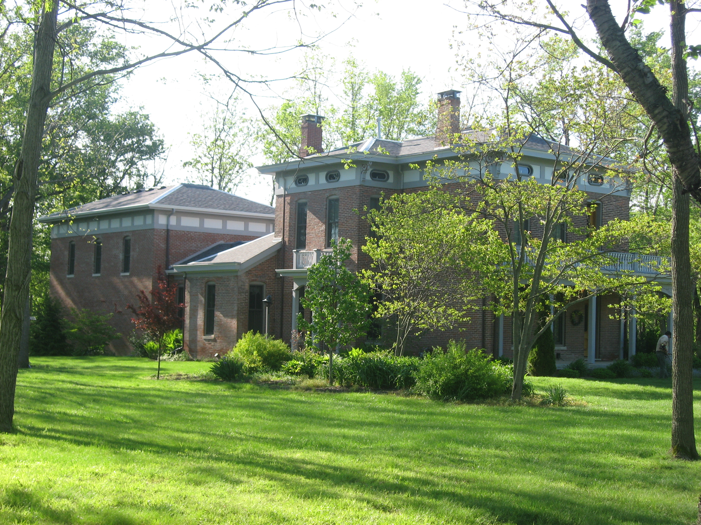 Front and northern side of the John W. McClain House, located at 1445 S. 525E south of Avon in Washington Township, Hendricks County, Indiana, United States. Built in 1876, it is listed on the National Register of Historic Places.